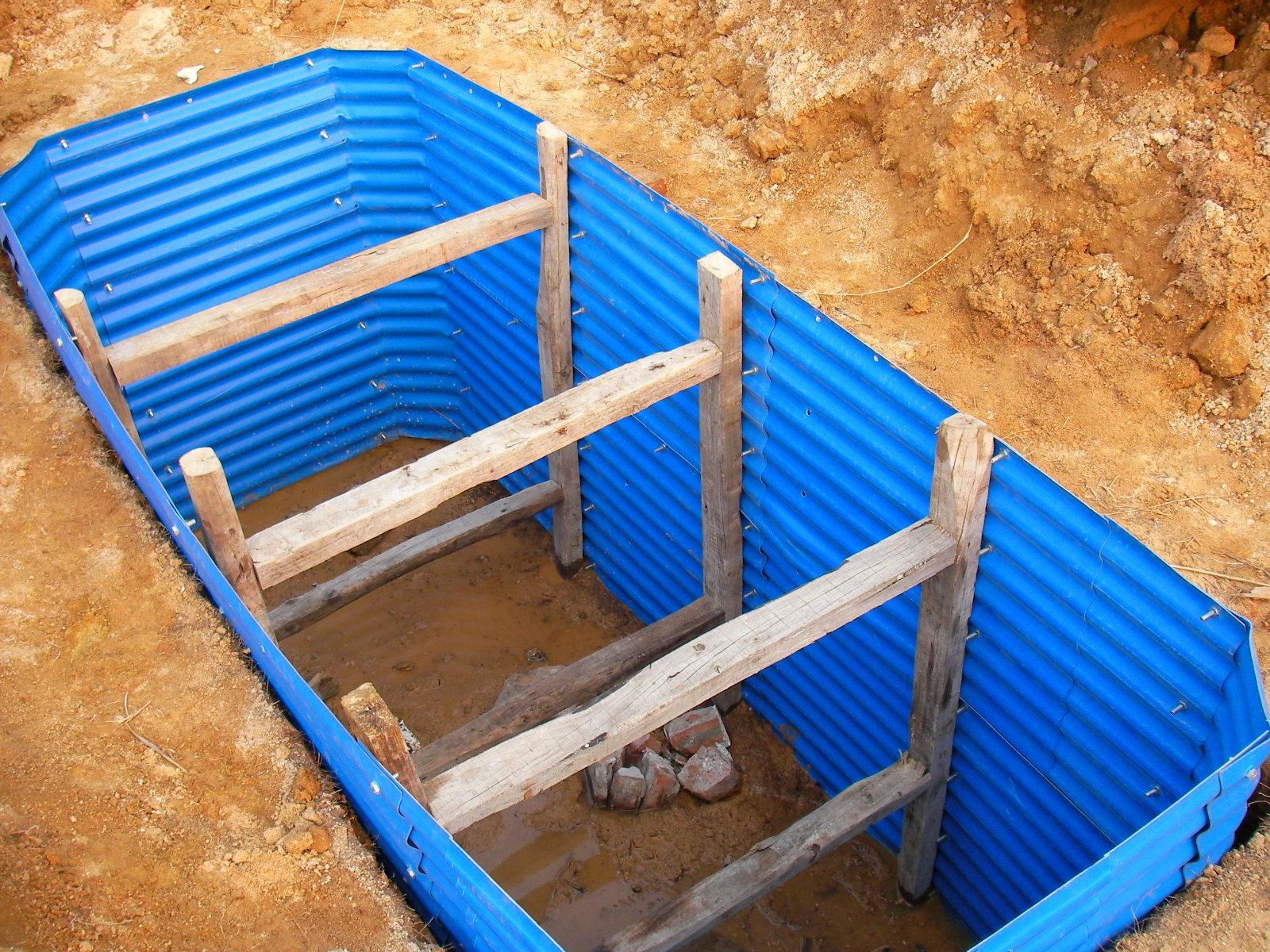 Emergency pit lining kits to avoid collapsing of pits. The trench pit lining needs support with timber poles Photo by: Jenny Rhode, 2011